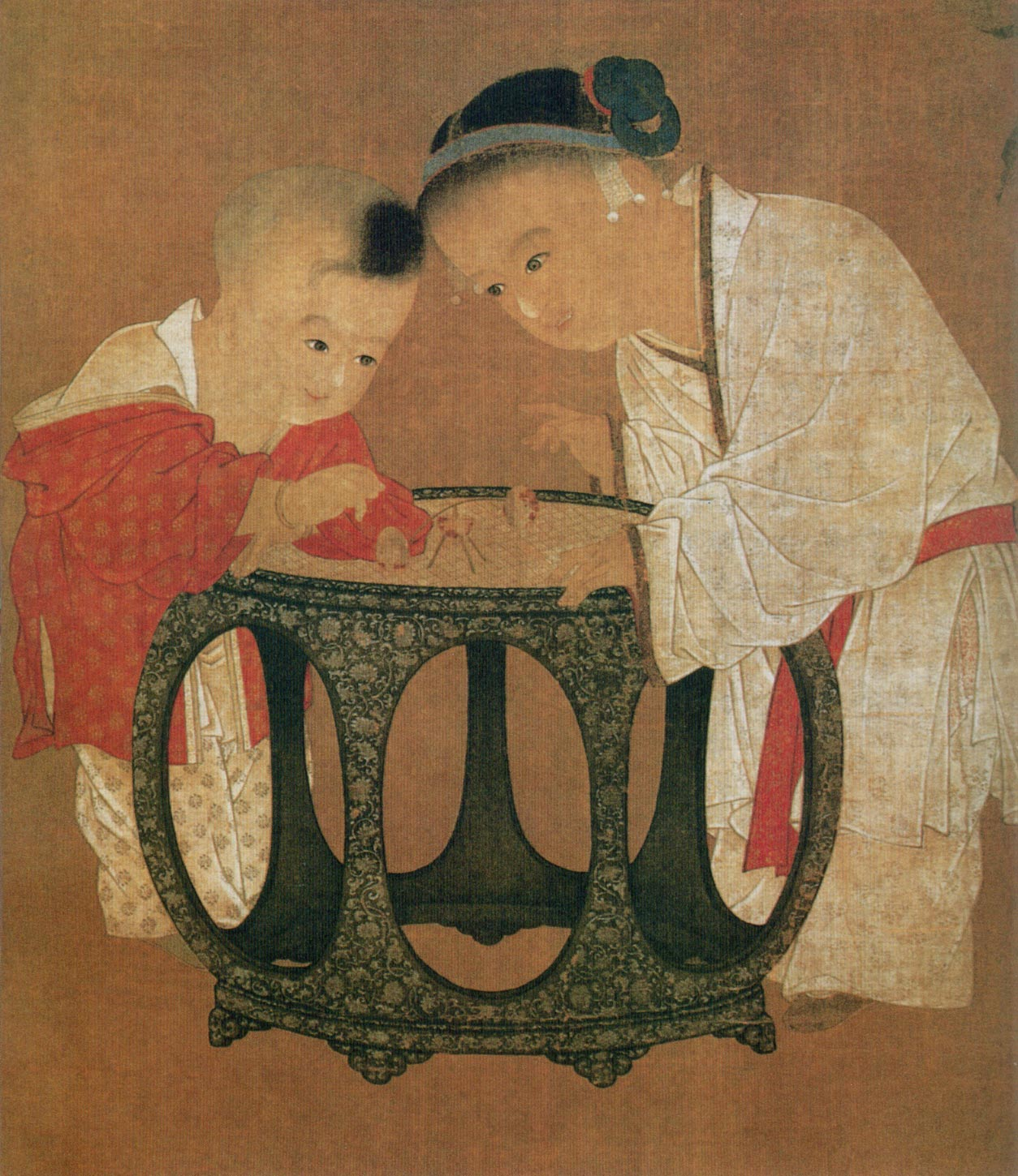 Children Playing in an Autumn Courtyardlabel QS:Len,"Children Playing in an Autumn Courtyard" label QS:Lzh-cn,"秋庭婴戏图"